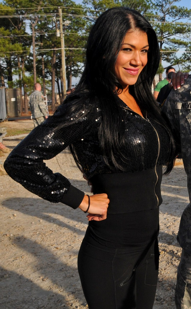 Rosa Mendes visits soldiers at Fort Bragg on December 9, 2011.